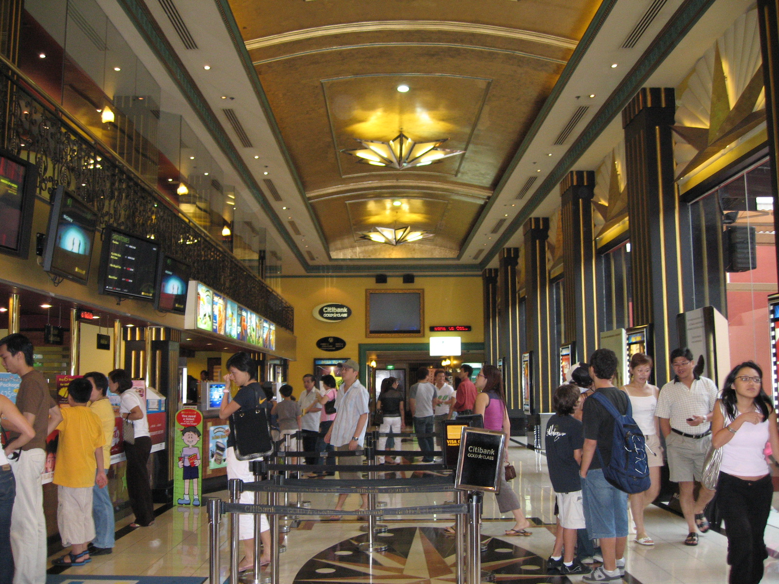 Ticketing hall of Golden Village, Grand Great World.